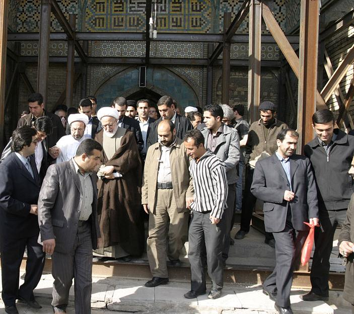 Mehdi Karrubi lecturing in Zanjan